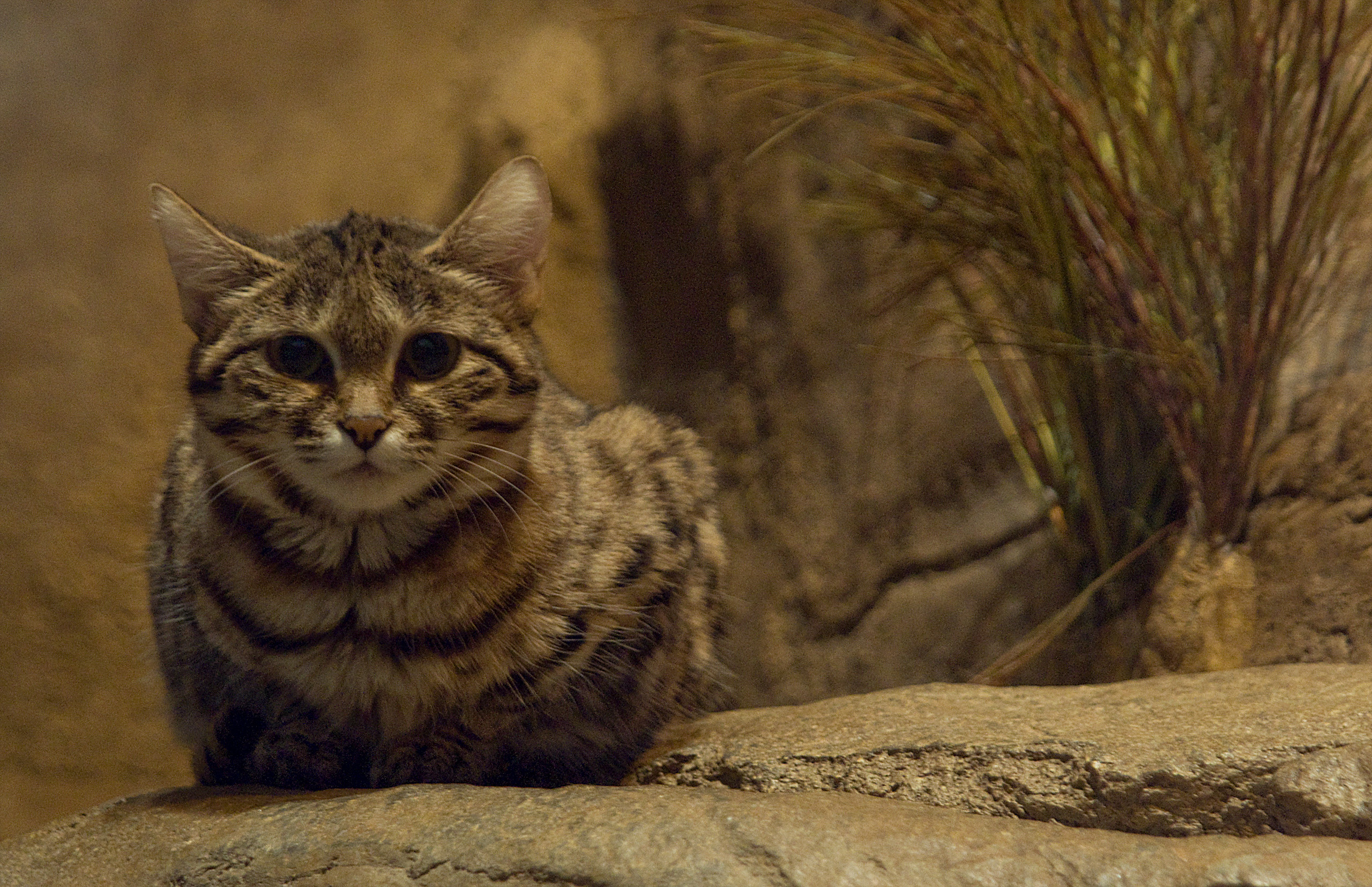 Black-footed Cat in Brookfield Zoo Template:Chat à pieds noirs au zoo de Brookfield. Brookfield, Illinois